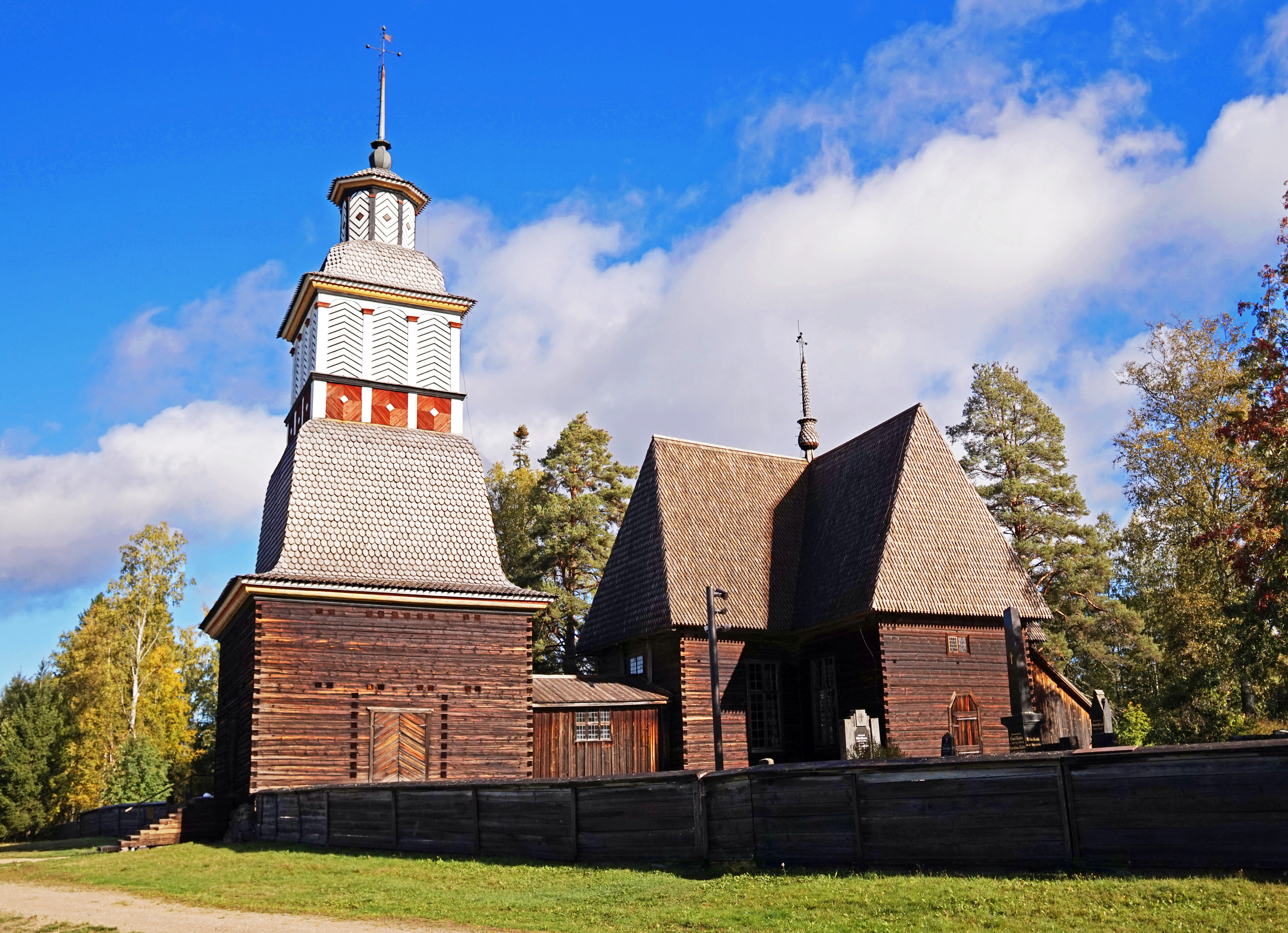 Petäjävesi Old Church, Finland. This is a photo of a monument in Finland identified by the ID 'Petäjävesi Old Church' (Q435829) - RKY: 221